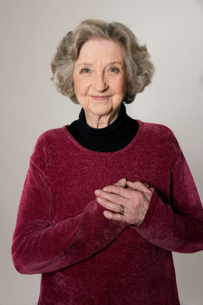 Swedish actress Meta Velander in a campaign for Hjärt-Lungfonden, 2014.